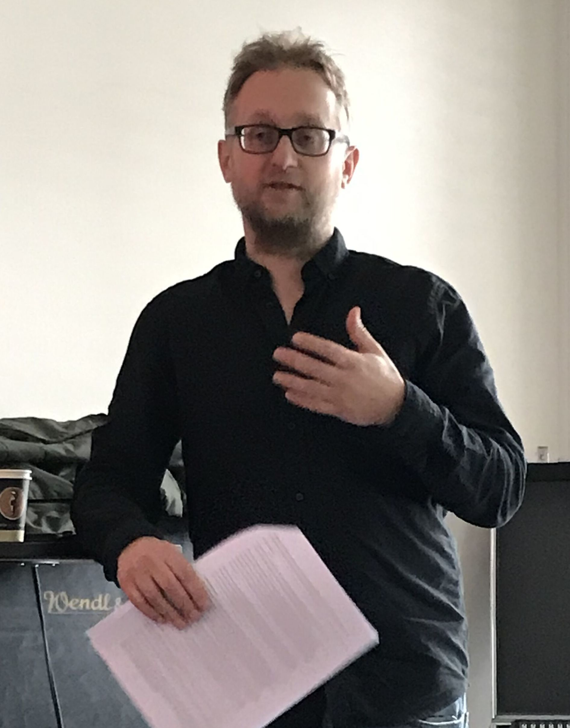 Øyvind Holen at Gjøvik library in 2019.